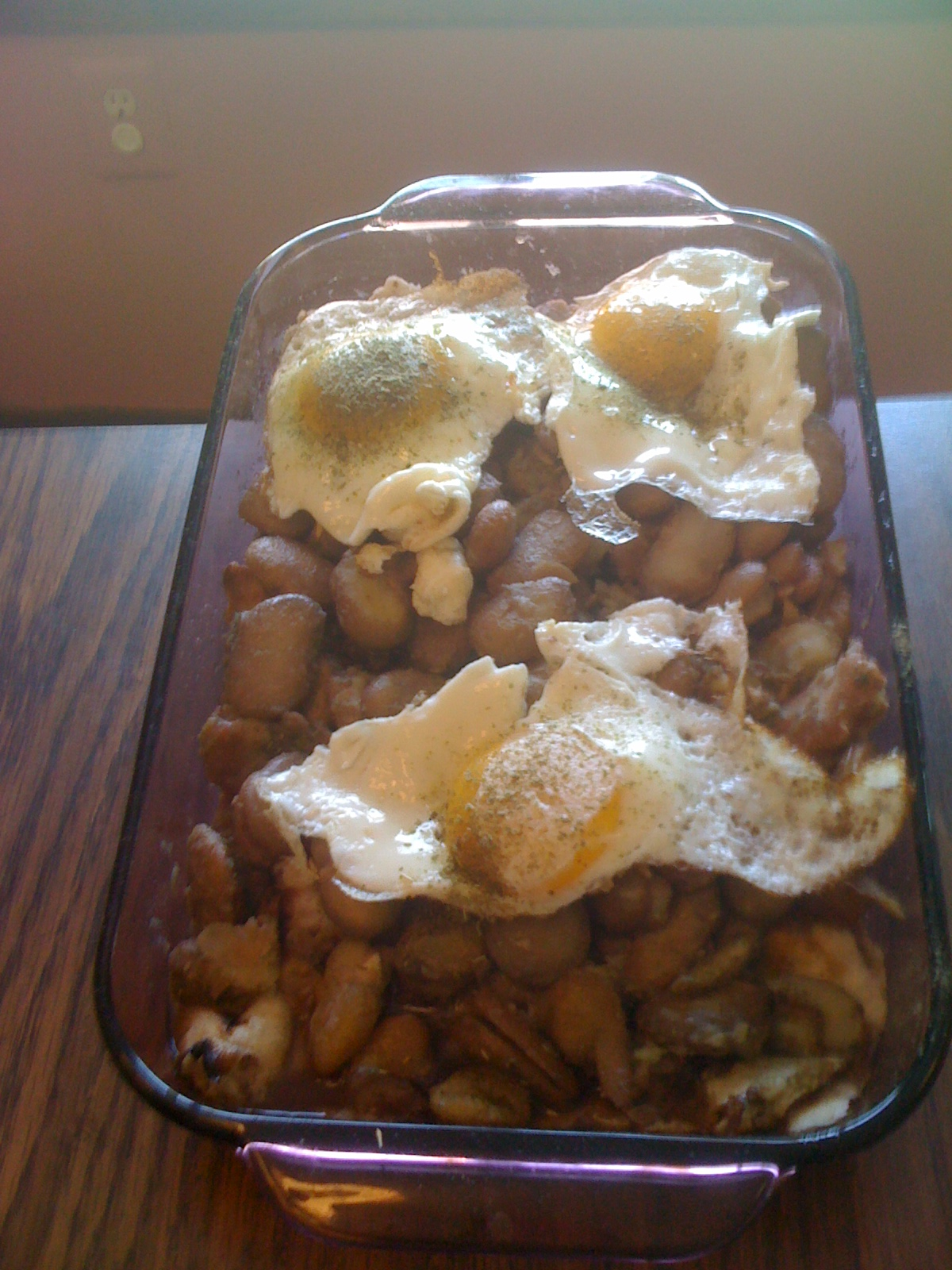 an Iraqi Dish